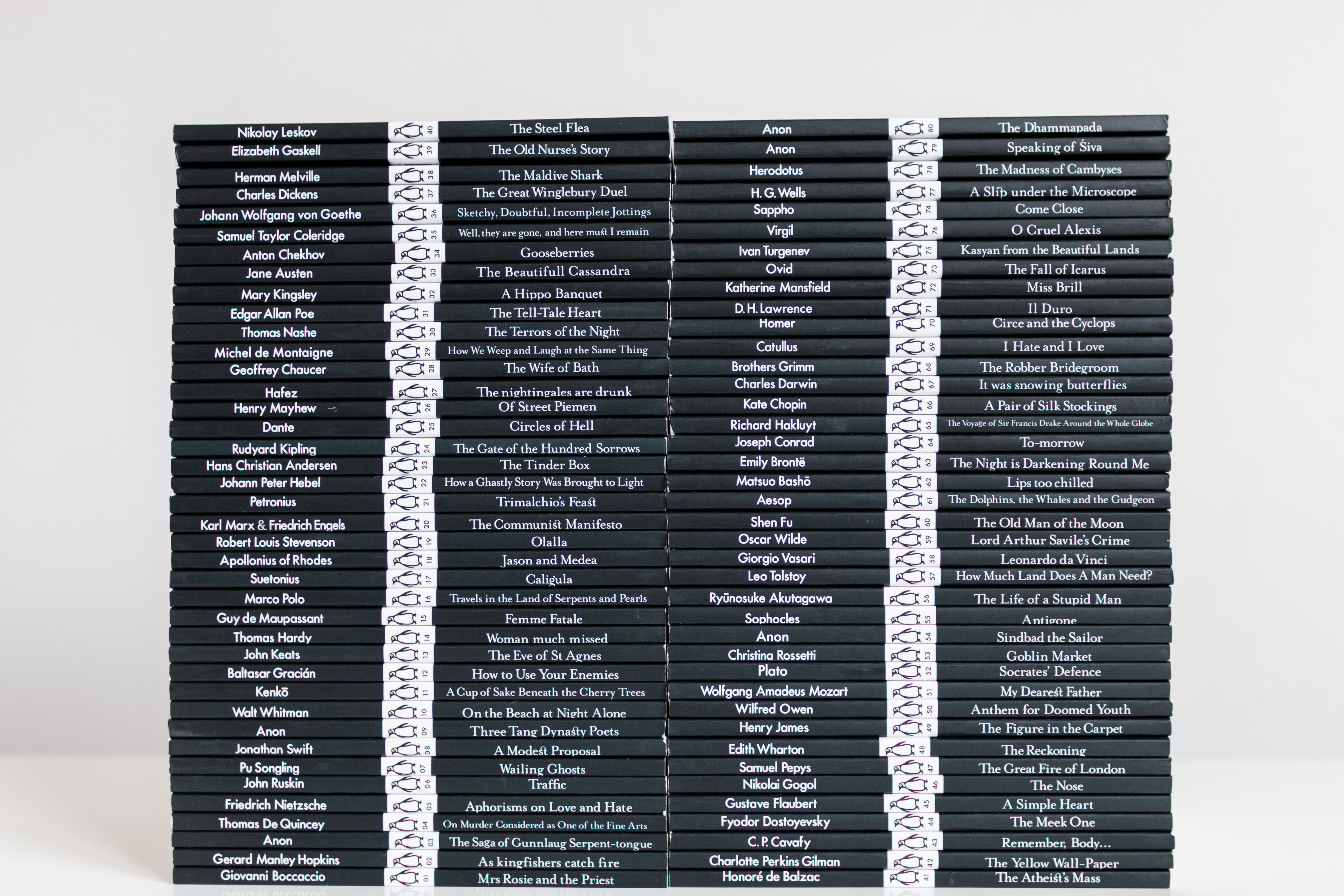 Penguin Little Black Classics - a series of 80 classics, sold for 80p celebrating the 80th Birthday of Penguin Classics.